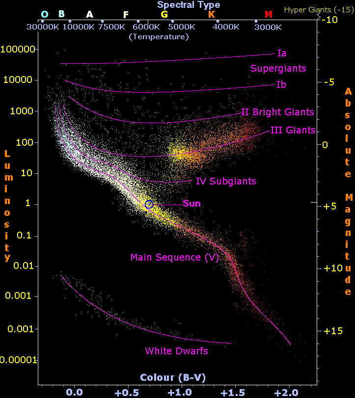 Hertzsprung-Russell diagram. A plot of luminosity (absolute magnitude) against the colour of the stars ranging from the high-temperature blue-white stars on the left side of the diagram to the low temperature red stars on the right side. Converted to png and compressed with pngcrush.